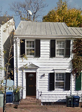 Beppe Severgnini's house in Georgetown (1994-1995)